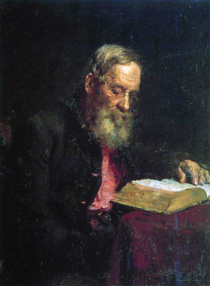 Portrait of Yefim Vasilyevich Repin, the artist's father